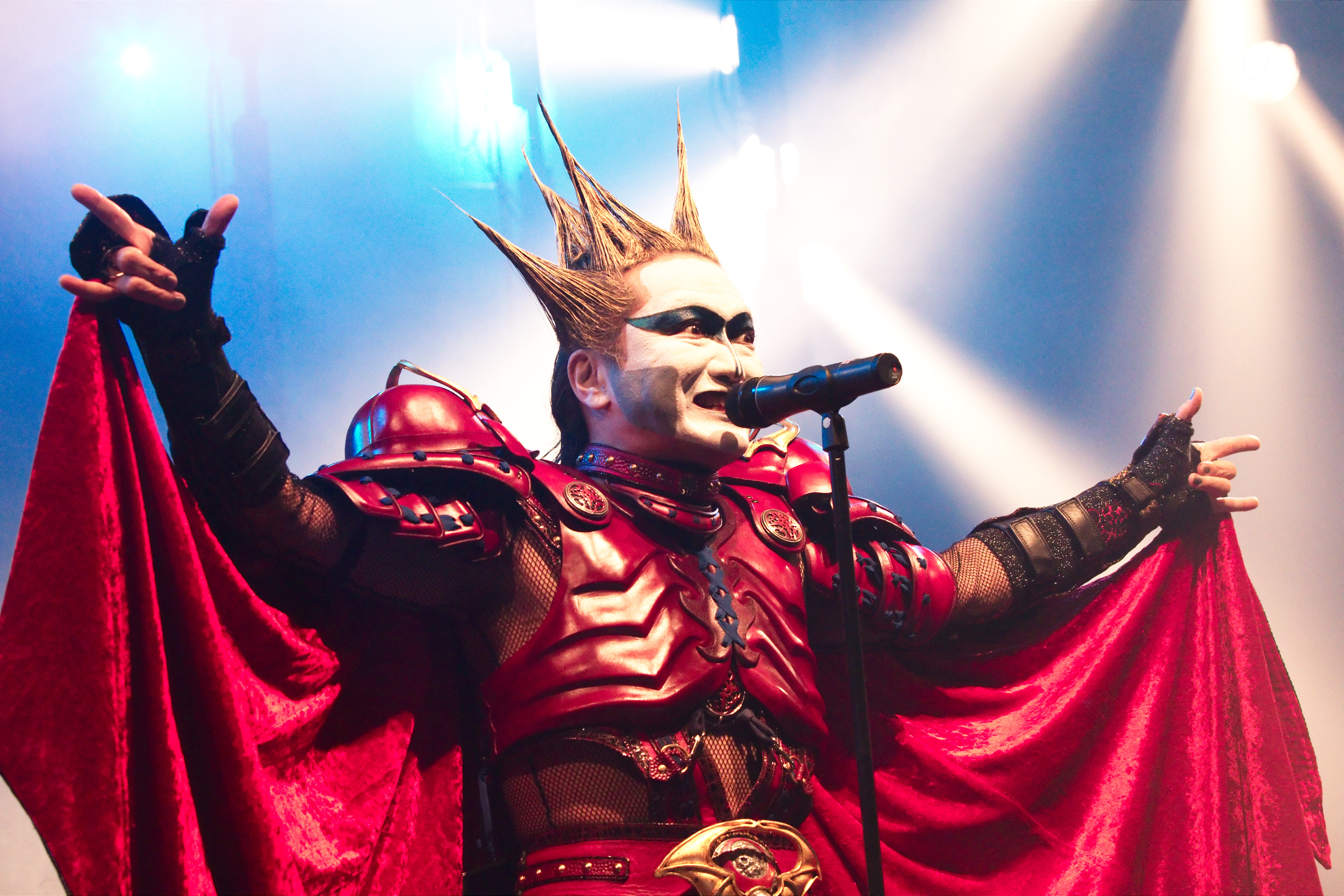 Seikima-II live at Japan Expo 2010 (Paris, France).